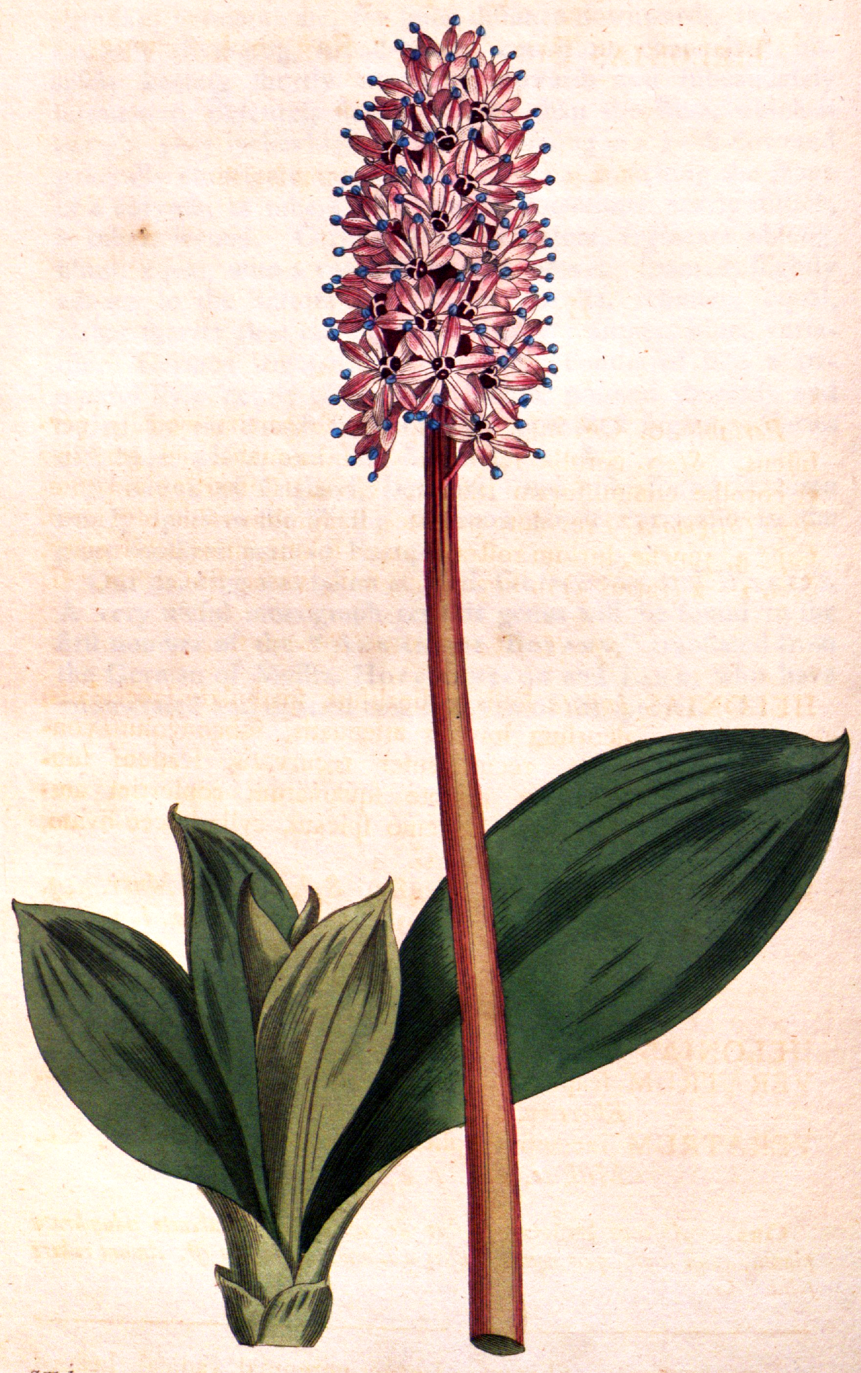 Helonias bullata